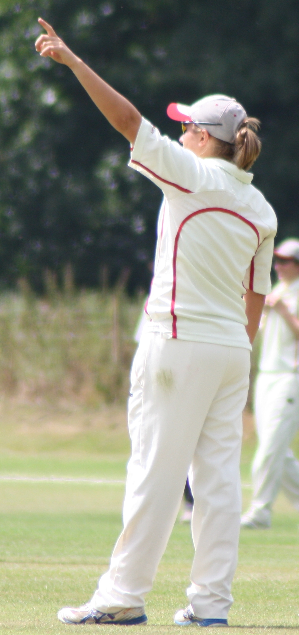 Steph Davies directing the field during the LV County Championship match between Somerset and Nottinghamshire at North Perrott Cricket Club Ground in Somerset.